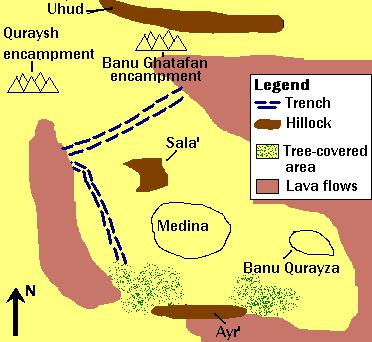 Self-produced. Source: a replica of the map found from Sayyid Abul Ala Maududi's The Meaning of the Qur'an vol. 4, p. 65; verified by W. Montgomery Watt's Muhammad: Prophet and Statesman.